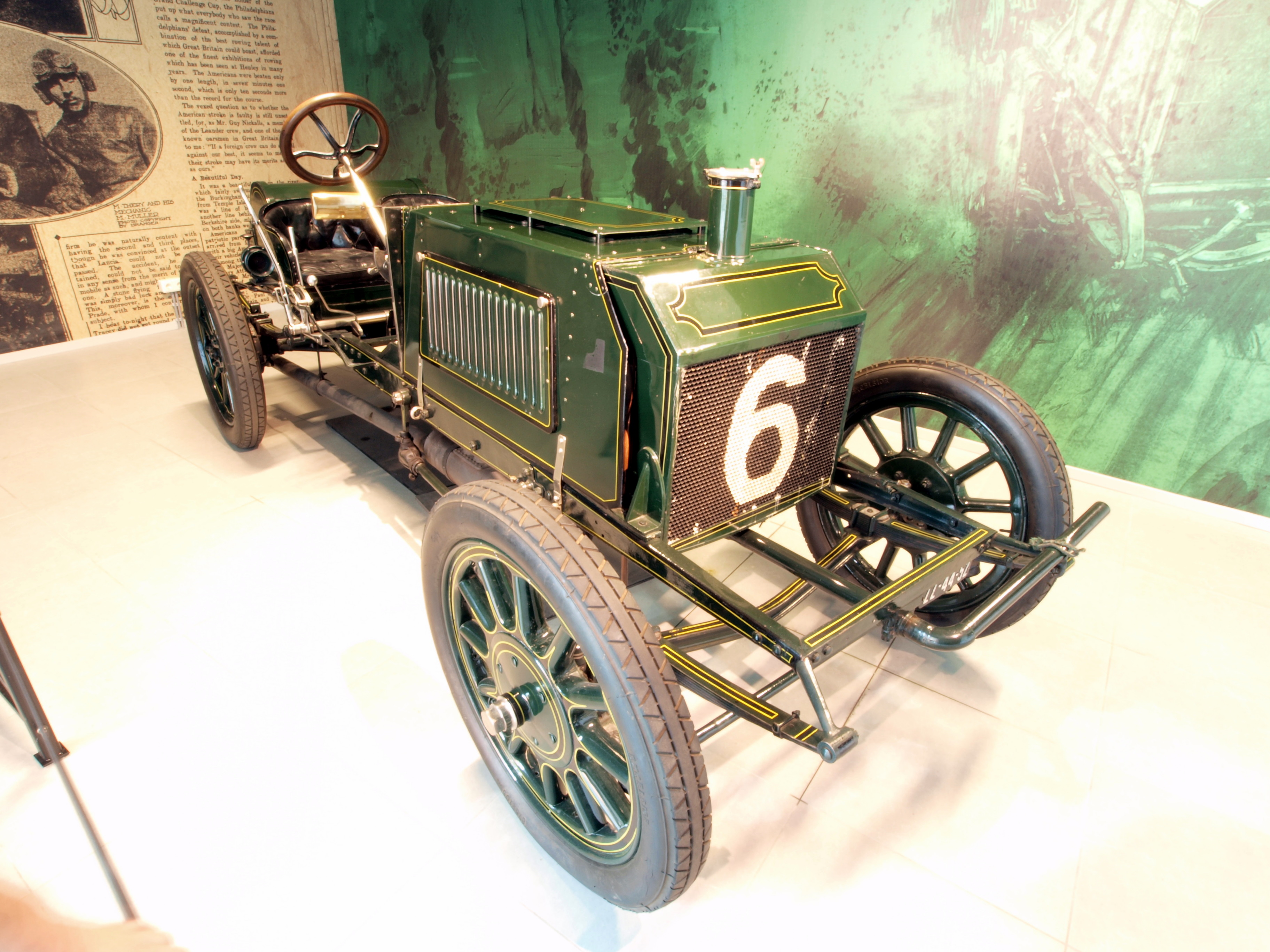 1903 Napier 100-HP Gordon Bennett Trophy race car. Photographed at the Louwman museum, The Netherlands.